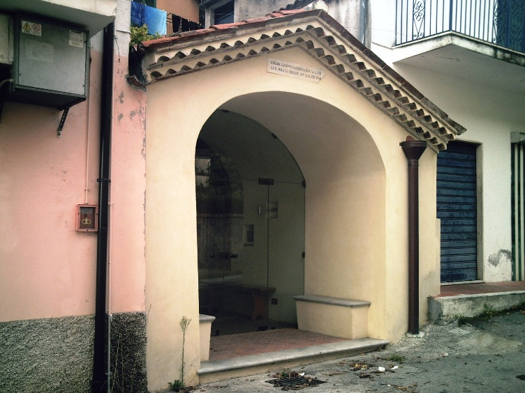 chapel of Ondavo